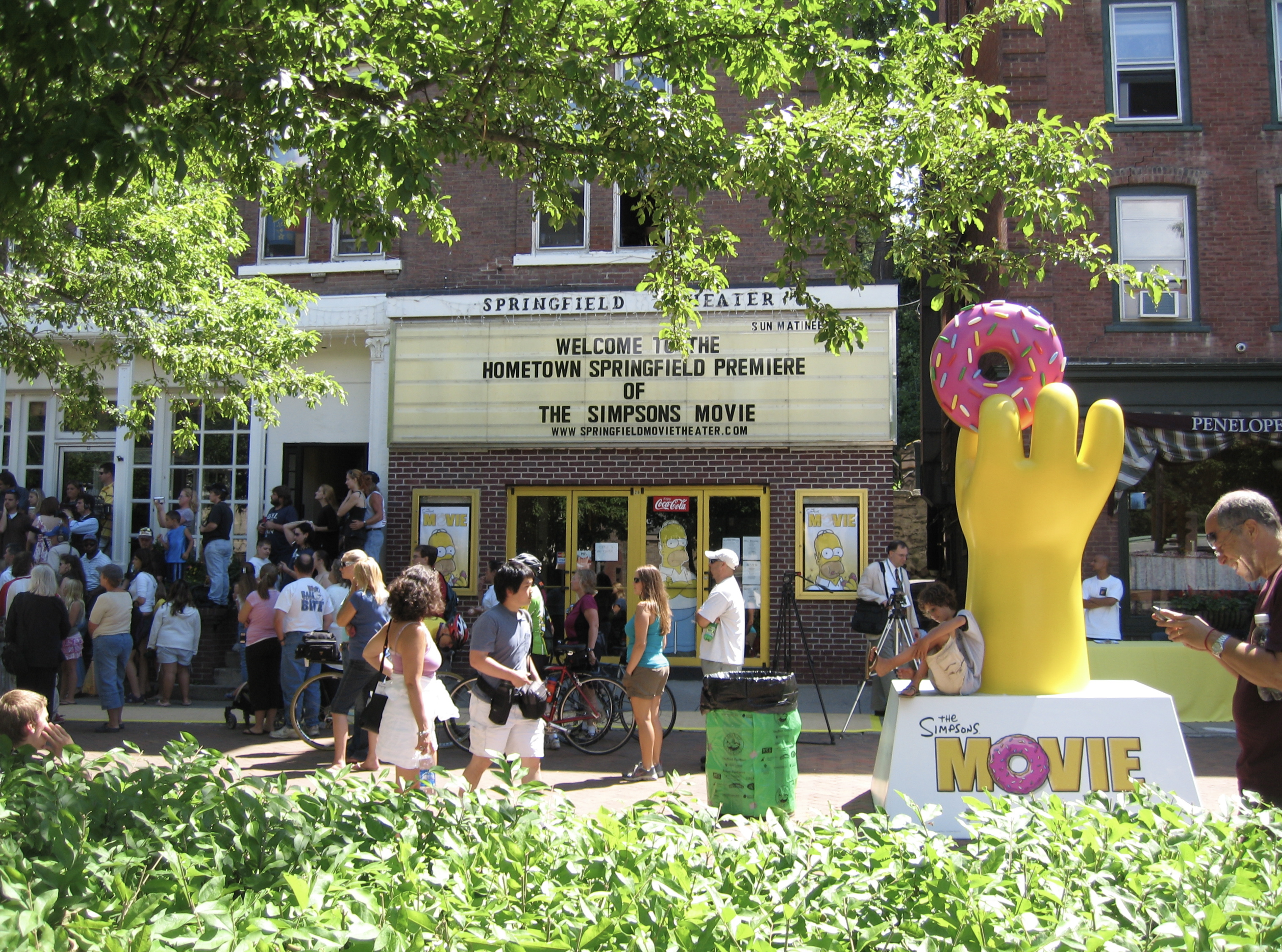 A photograph of the Springfield Movie Theater in Springfield taken on July 21, 2007. The photo shows the marquee displaying the premiere for The Simpsons Movie movie as well as a giant pink donut. The Ellis Block building complex that hosted the theater has since been heavily damaged by in a fire caused by arson on July 8th, 2008, forcing the theater to be closed.[1]